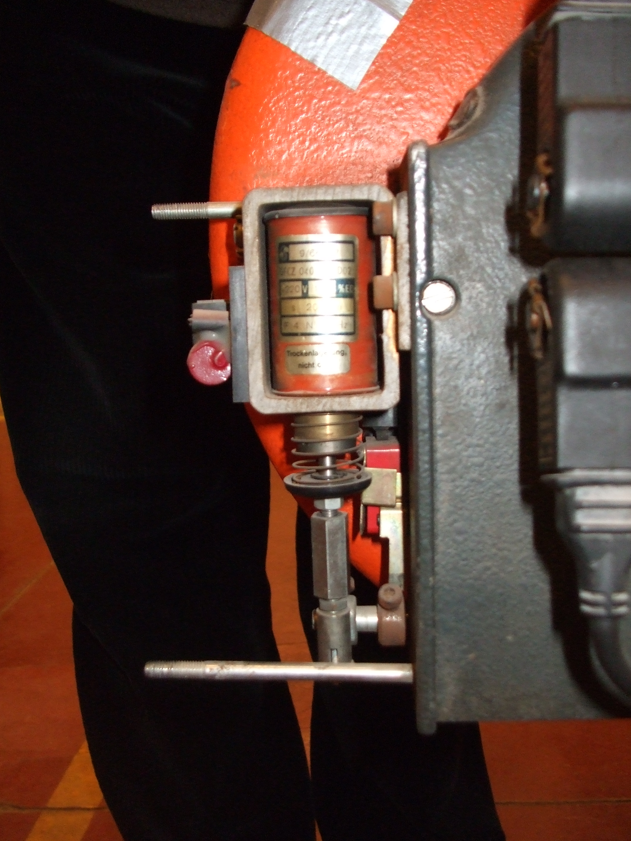 Solenoïde